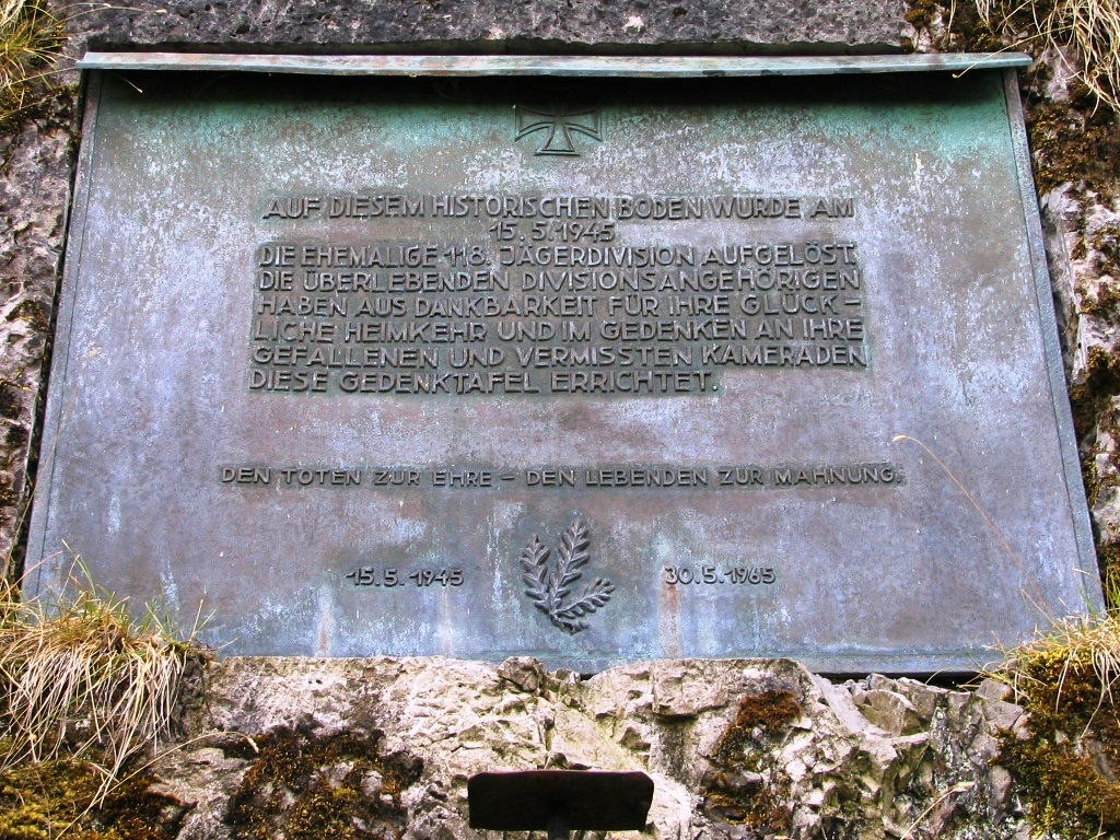 The memorial plaque for the 18th Jägerdivision